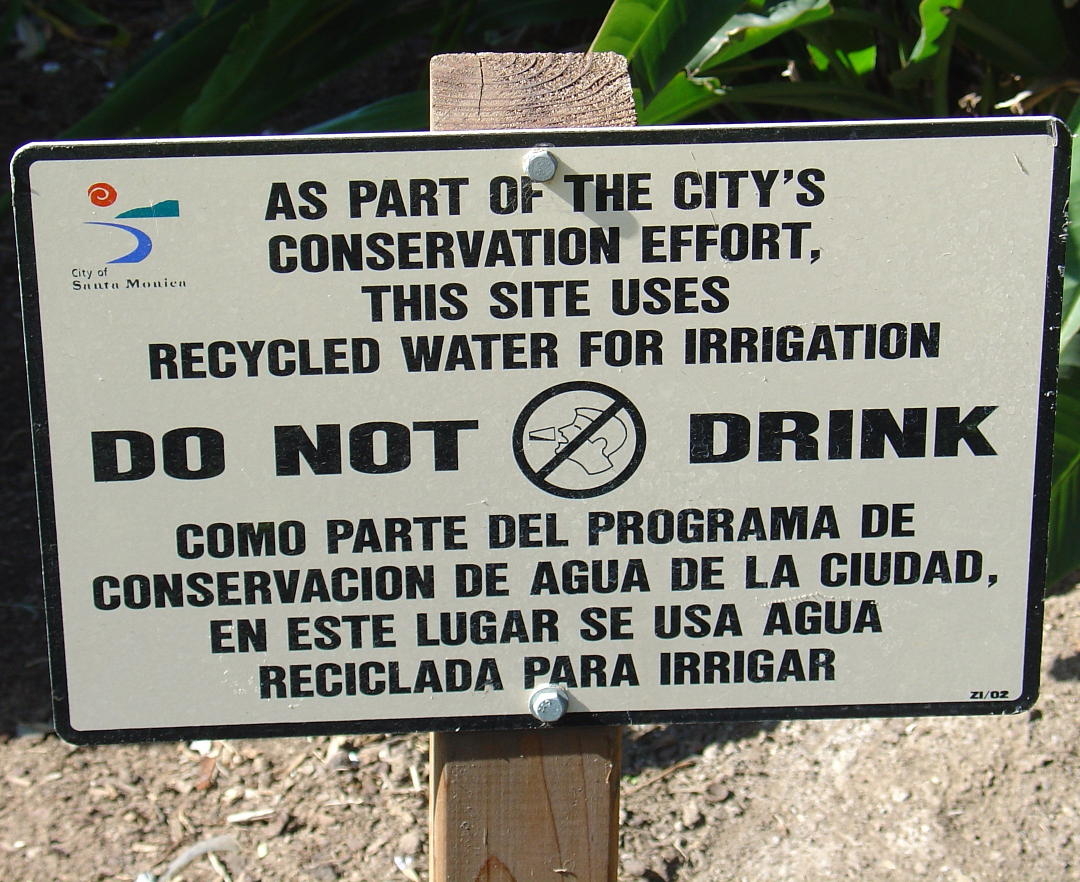 "Do not drink" sign — noting that recycled water is being used to water the park's plants. Palisades Park, in Santa Monica, California. March 2006.